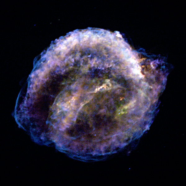 Using NASA's Chandra X-ray Observatory, scientists have created a stunning new image of one of the youngest supernova remnants in the galaxy. This new view of the debris of an exploded star helps astronomers solve a long-standing mystery, with implications for understanding how a star's life can end catastrophically and for gauging the expansion of the universe.